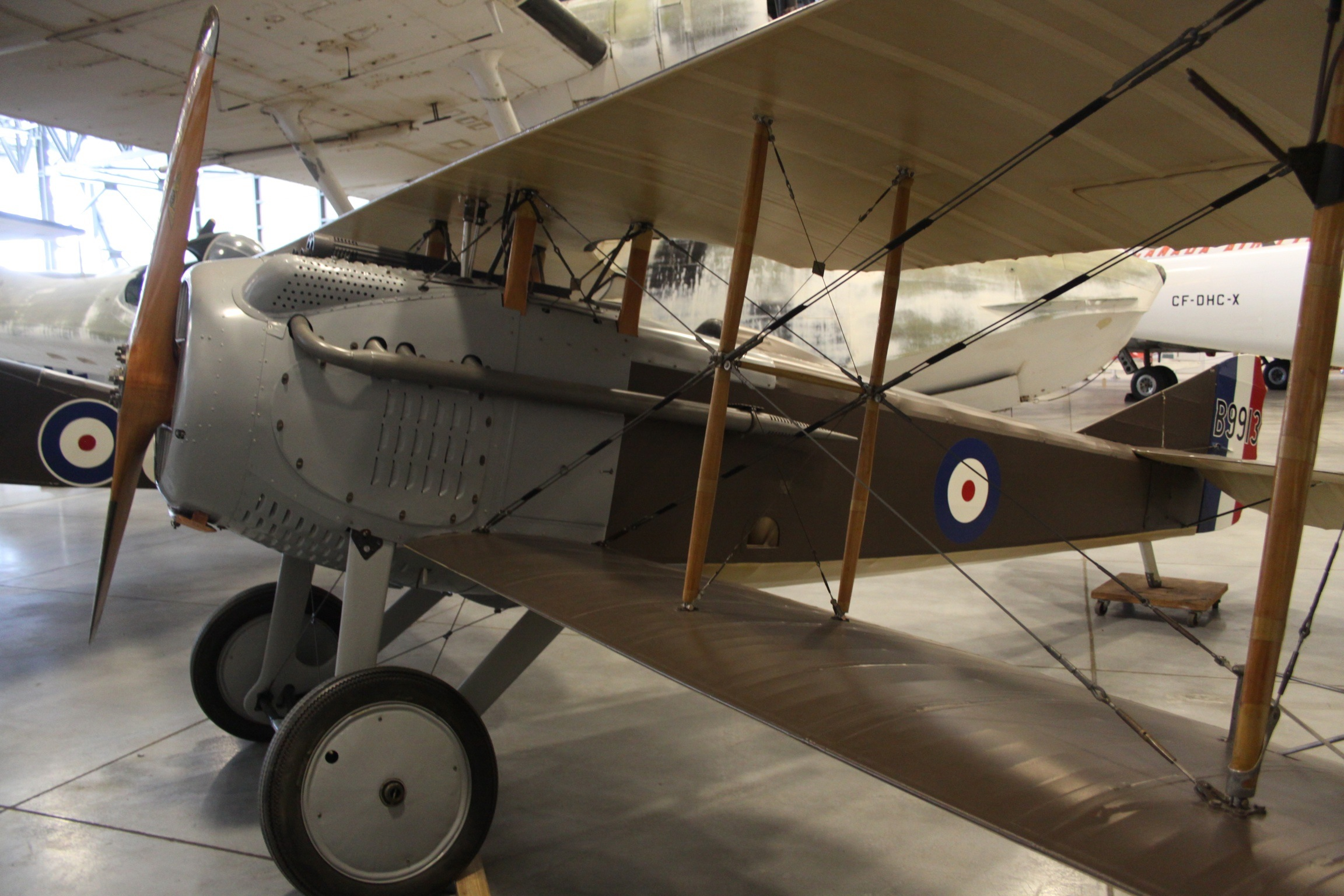 At Rockcliffe Canada Aviation Museum